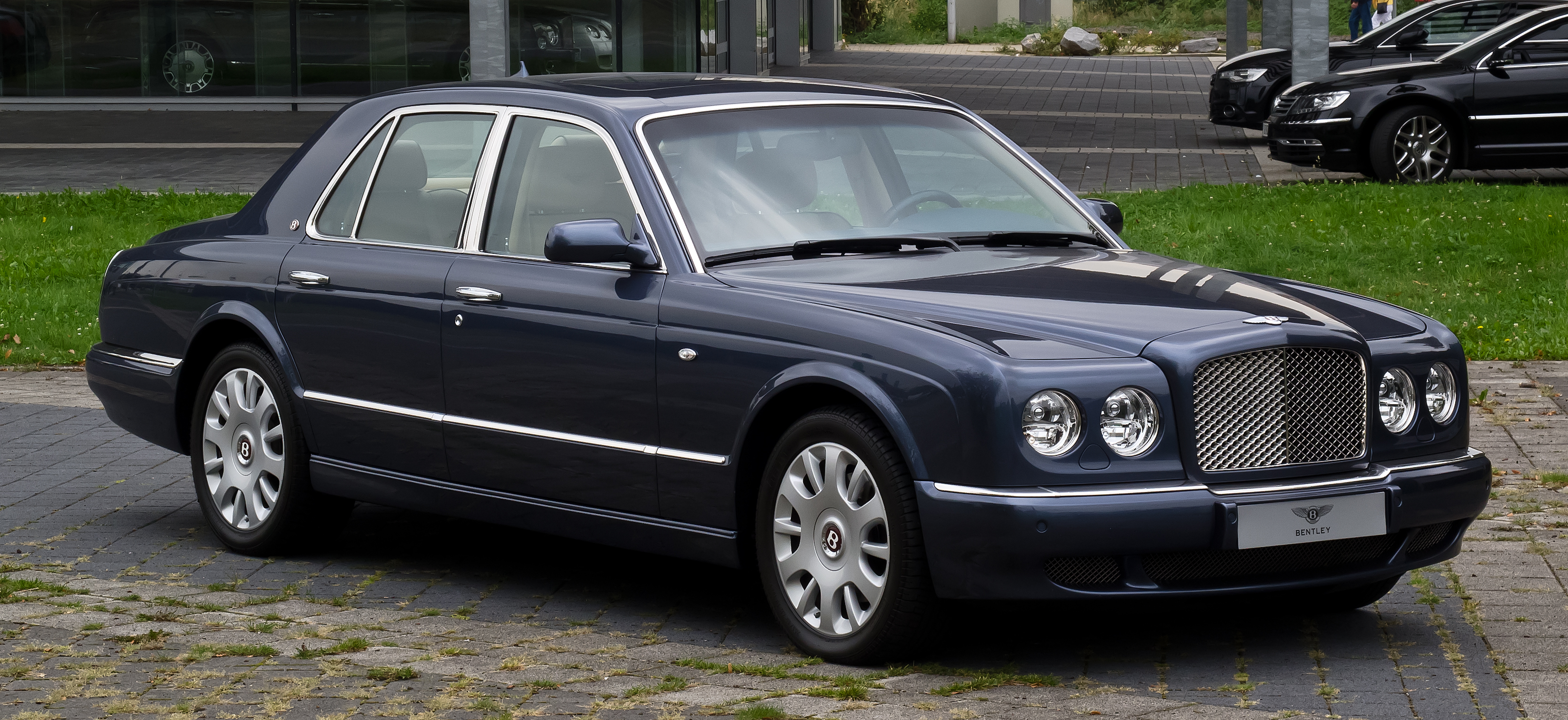 Bentley Arnage R (Facelift)